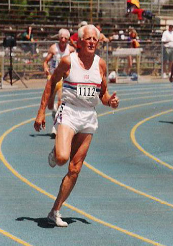 World record holder Payton Jordan at the USATF National Masters Track & Field Championships in San Jose, California.